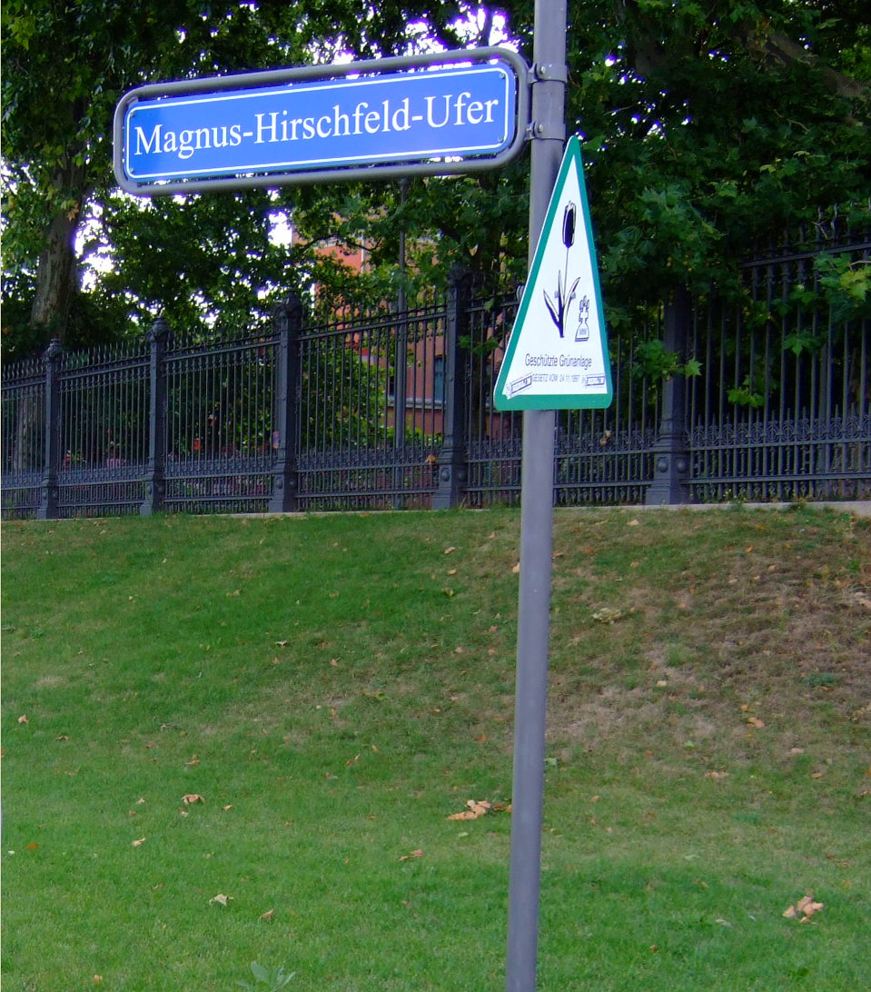 The Magnus-Hirschfeld-Ufer section of the Spreeufer, near the Bundeskanzleramt.